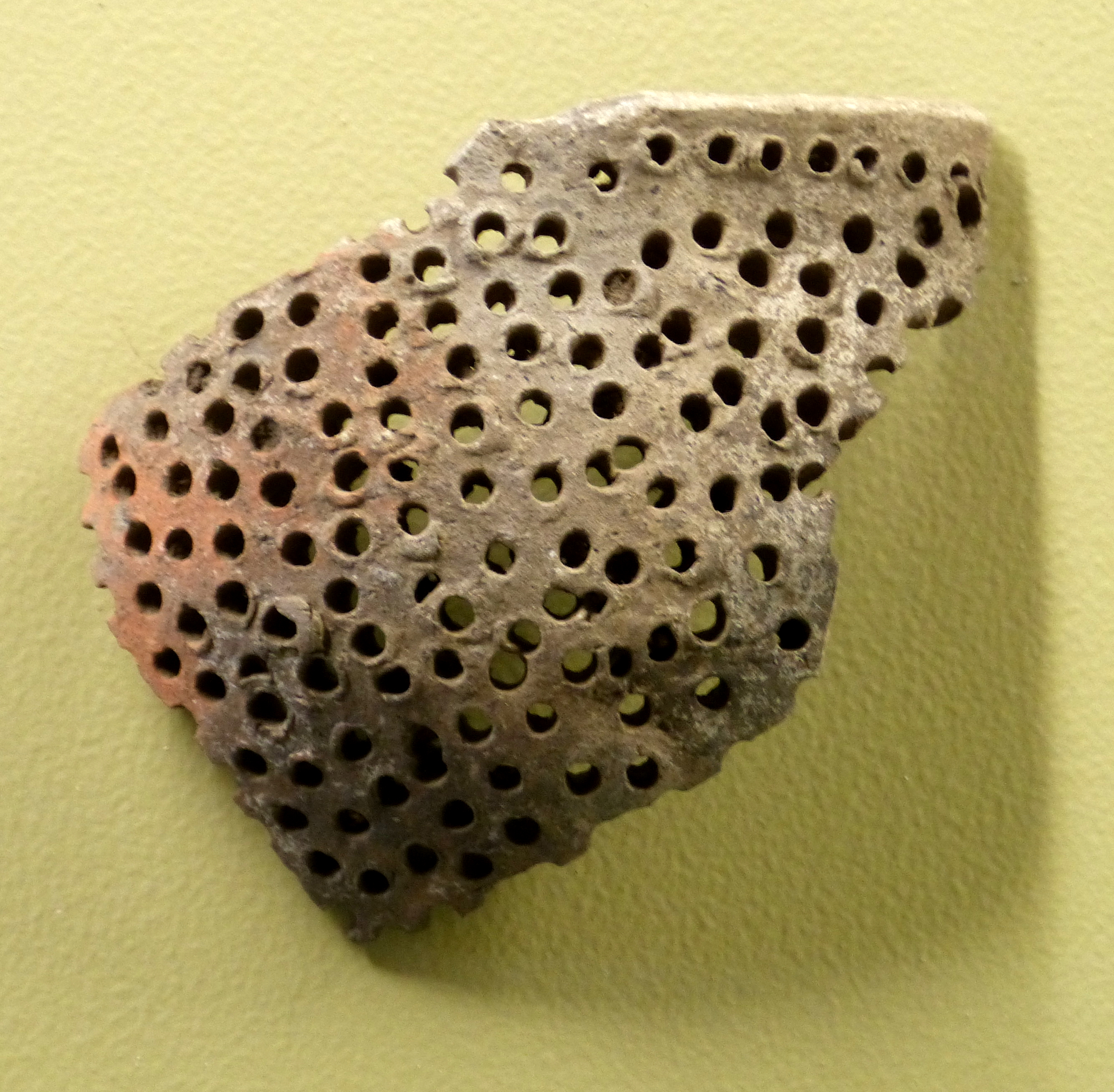 Kelheim ( Lower Bavaria ). Archaeological Museum: Fragment of a Bronze age ceramic sieve for cheese production.